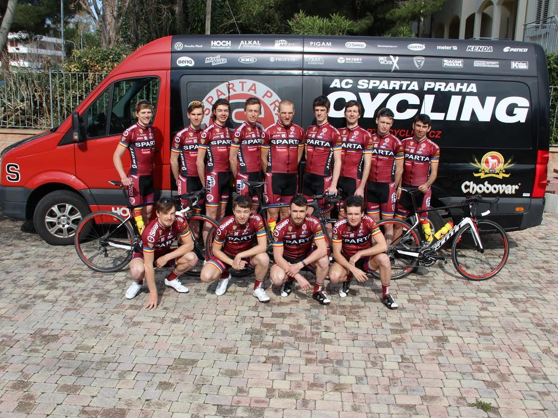 Team AC Sparta Praha Cycling (2016)